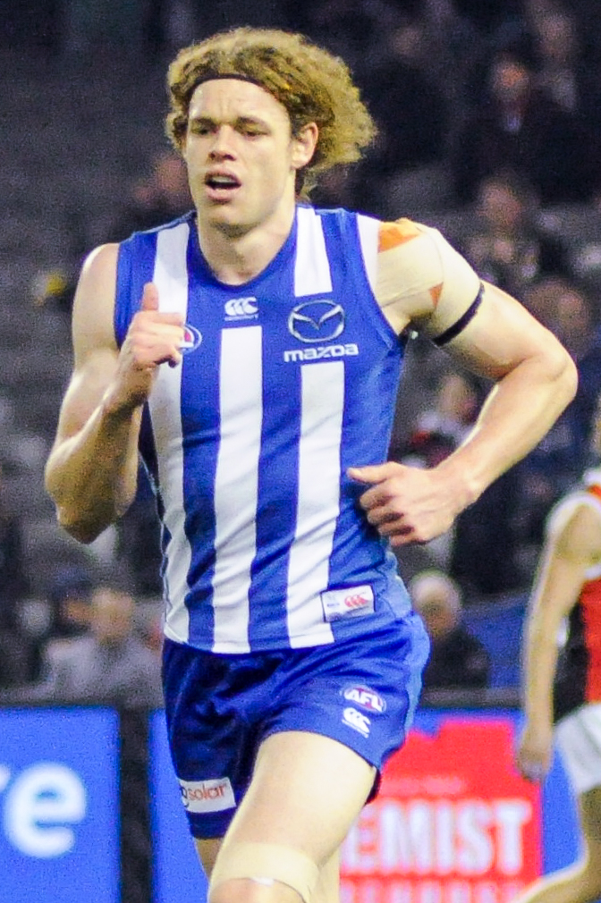 Ben Brown during the AFL round thirteen match between North Melbourne and St Kilda on 16 June 2017 at Etihad Stadium in Melbourne, Victoria.